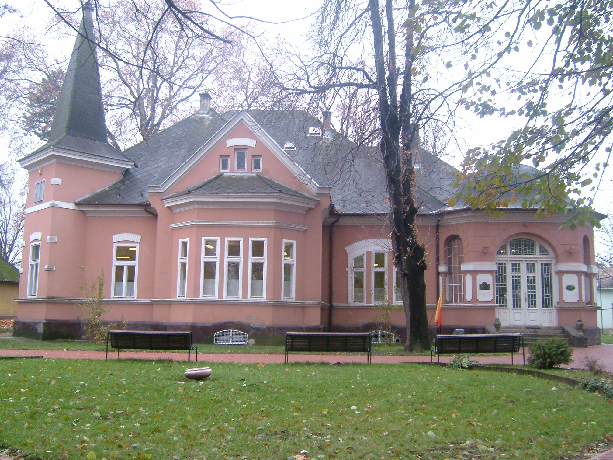 Dombóvár regional historical museum